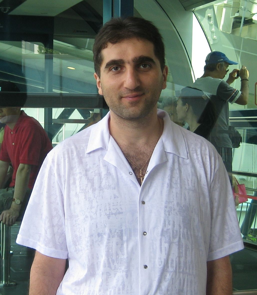 Ashot Nadanian (chessplayer)